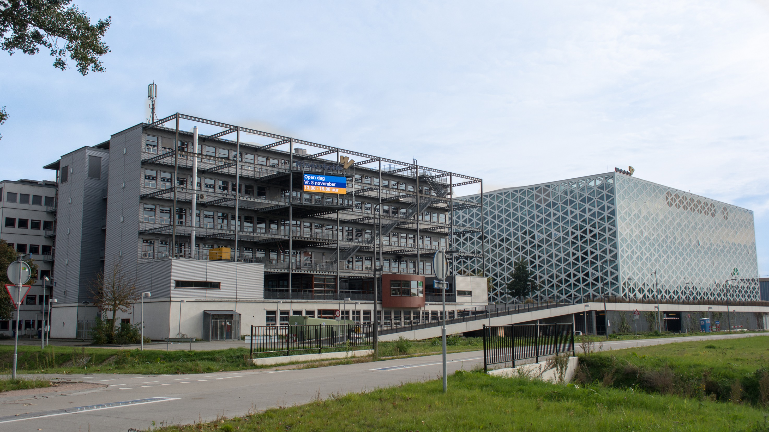 Windesheim Zwolle, 2013